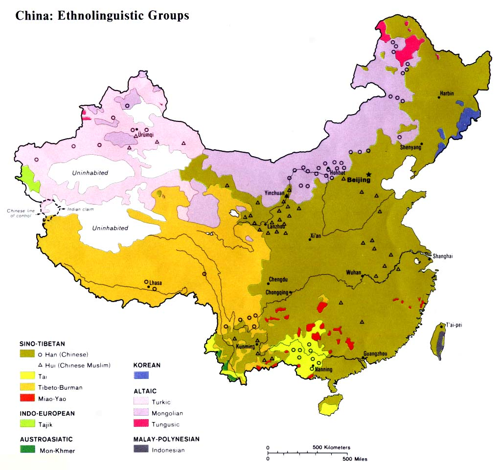 Ethnolinguistic groups of Mainland China and Taiwan. (English). Source: United States Central Intelligence Agency, 1983. The map shows the distribution of ethnolinguistic groups according to the historical majority ethnic groups by region. Note this does not represent the current distribution due to age-long internal migration and assimilation.